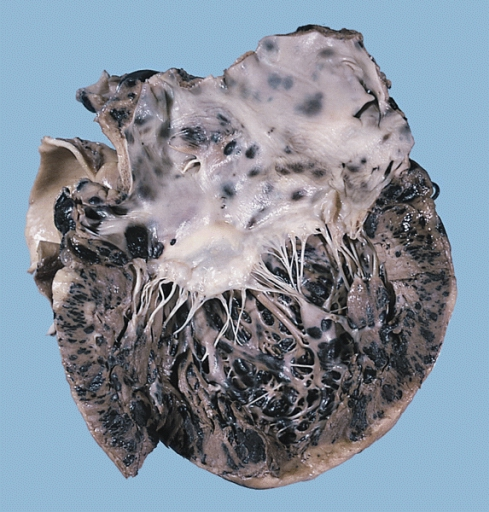 HEART-GREAT VESSELS: METASTATIC MALIGNANT MELANOMA: HEART Note the pigmented masses throughout the heart.